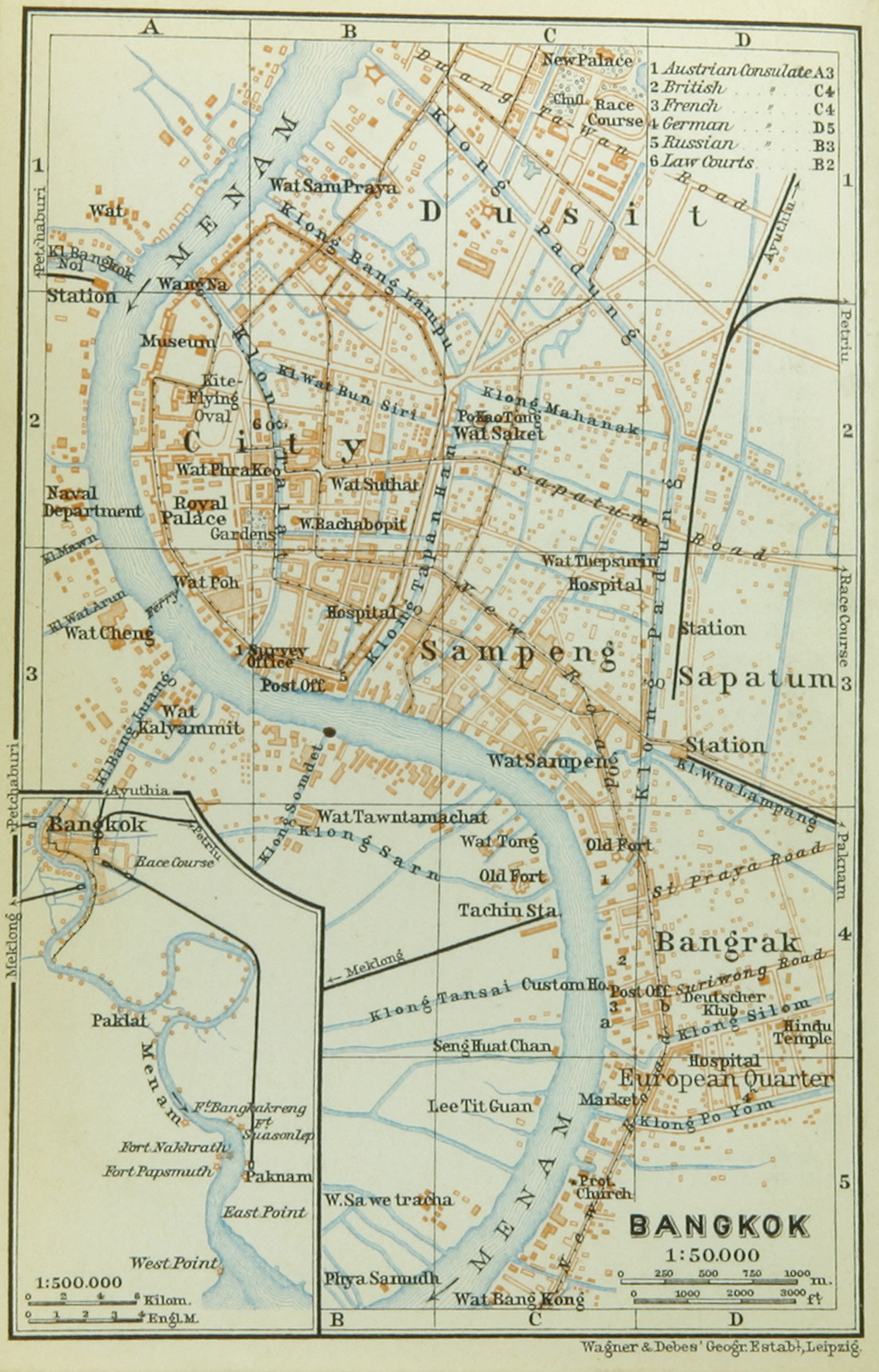 Map of the city of Bangkok, ca 1914 (1:50,000), incl. an inserted small map showing the course of the Mae Nam river down to its mouth (1:500,000). Labelled in English.